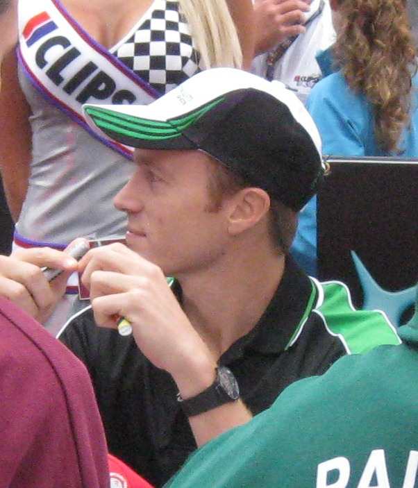 V8 Supercar driver Karl Reindler at a 2012 Clipsal 500 Adelaide promotion.